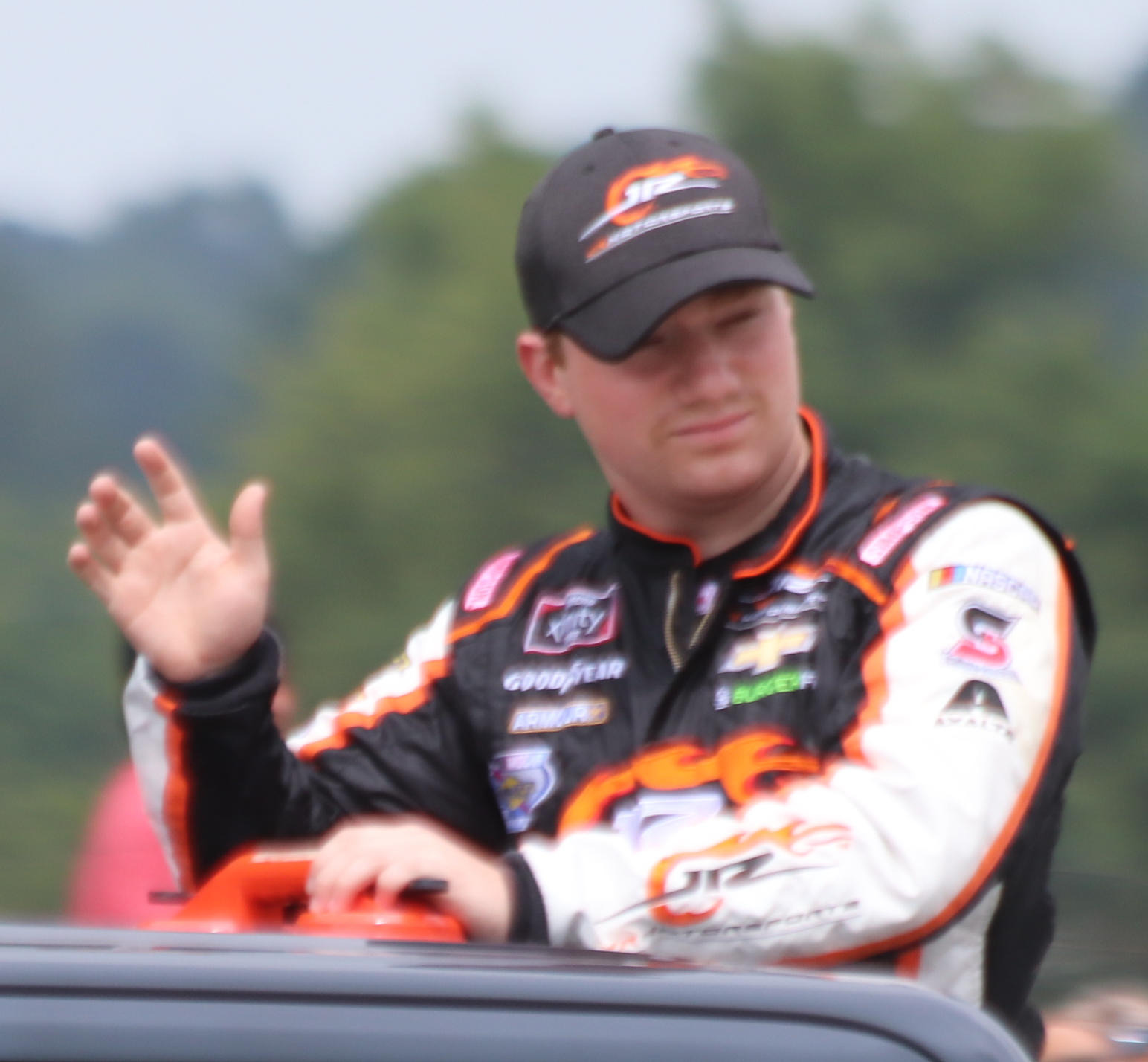 Tyler Reddick waves to fans during drivers introductions at Road America in 2018